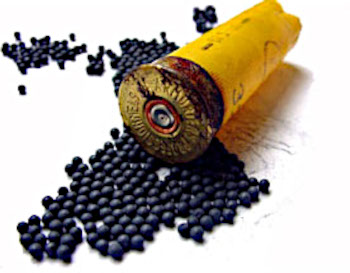 A classic cartridge (30-35 grams of lead) contains 200-300 of toxic lead balls. It is generally estimated that for every bird killed, several cartridge were fired (3-6 cartridges according to the sources, for waterfowl). If each of the 1.7 million French hunters (late 1990s) had fired a single cartridge of 32 g per year... This would already be 54.5 t of lead dispersed in nature (545 tons in 10 years). It was estimated in the late twentieth shekel in France 8000 to 9000 TS of lead/year was dispersed in nature through about 250 million cartons a year from all firing together, three quarters for hunting, more than 6,000 t / year of lead (~ 6500t/an) 1/4 for skeet shooting, more than 2,000 t / year. There is an annual decline, but an increasing accumulation in the soil. In France, since 2005, the lead cartridges are no longer allowed for shooting at a wetland.